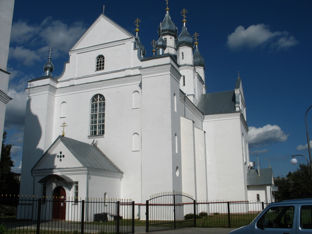 Church of Holy Trinity (Slonim, Belarus)